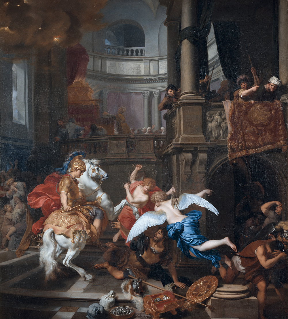 The expulsion of Heliodorus from the temple oil on canvas 89 x 77 cm 1674